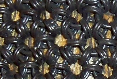 Antique Japanese butted kusari (chain armor), showing an unusual pattern consisting of 6 doubled up links connected to a doubled up butted center link.